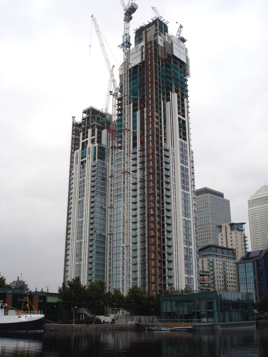 Pan Peninsula Towers under construction in London, September 2007. The towers are shown here recently topped-out.